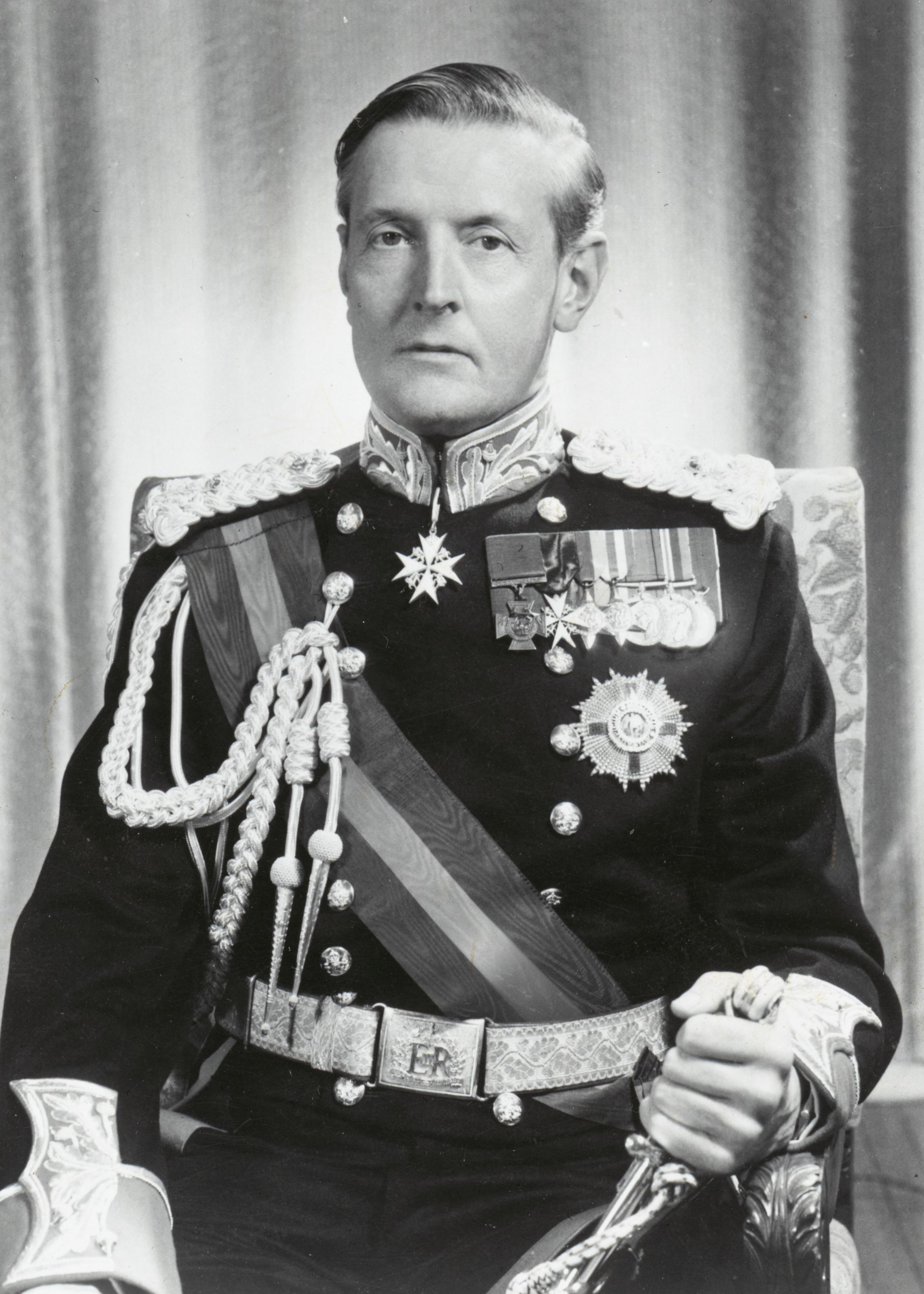 Portrait of William Sidney, 1st Viscount De L'Isle in the viceregal uniform of the Governor-General of Australia